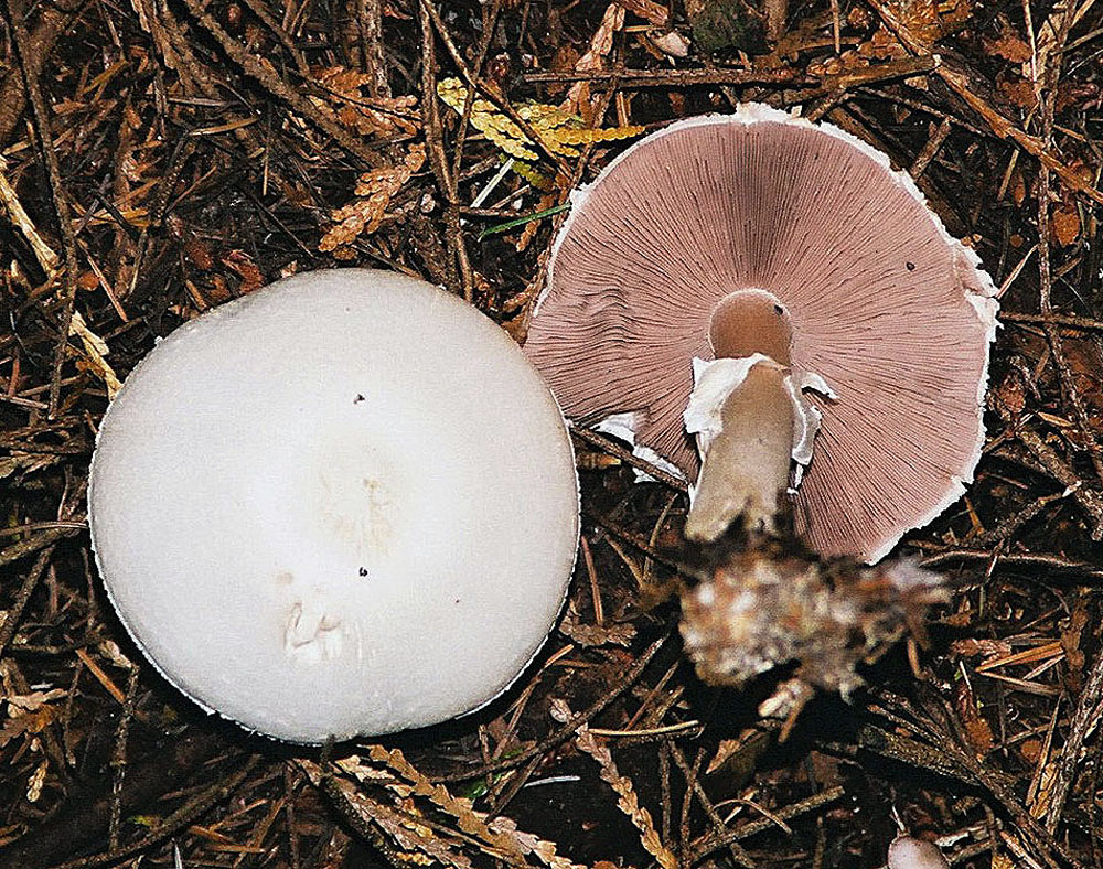 A widespread species with dark spores and a "drooping ring". Woodland Agaricus is likely the most common name.